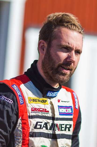 Swedish racing driver Björn Wirdheim at an STCC test in Karlskoga, Sweden.